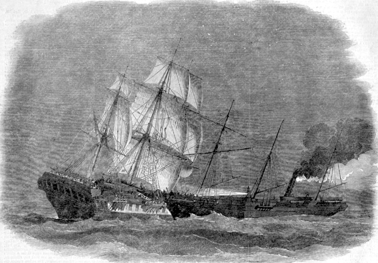 ss Mangerton, a 130hp 364 ton iron steamer built by Robert Steele & Company in 1855, ran into the side of the 3-masted barque, Josephine Willis, built at Limehouse in 1854, off Folkestone